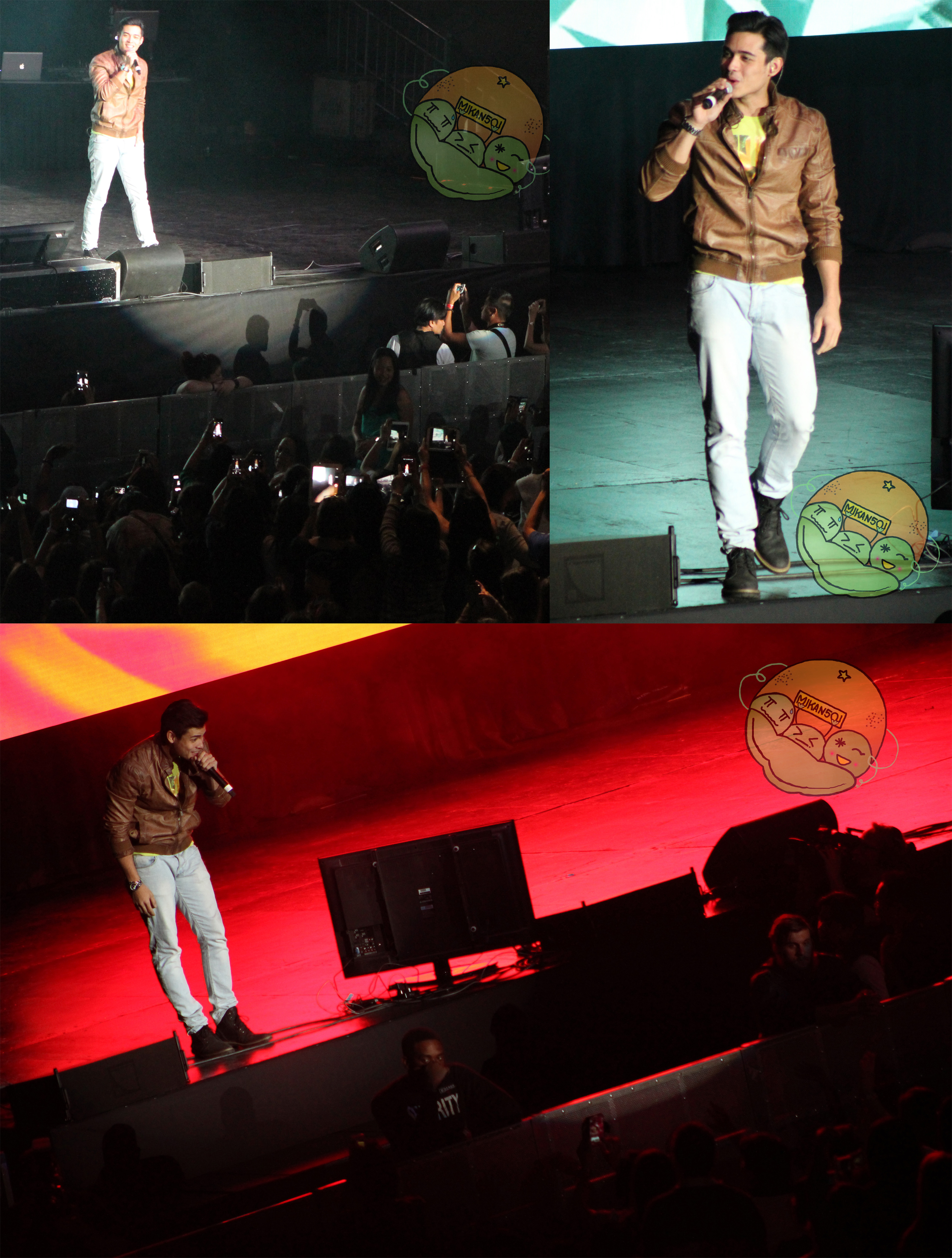 Xian Lim's performances during ABS-CBN's concert tour "One Kapamilya Go" in Toronto, Ontario on June 21, 2014